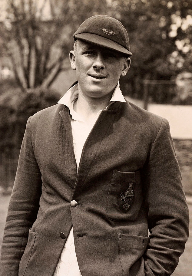 George Cox (junior), Sussex County cricket club, circa 1933.